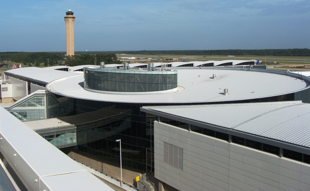 George Bush Intercontinental Airport